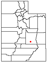 Location of the San Rafael Swell in Utah